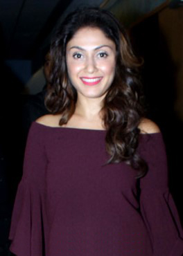 Manjari Fadnis graces the special screening of Poster Boys.